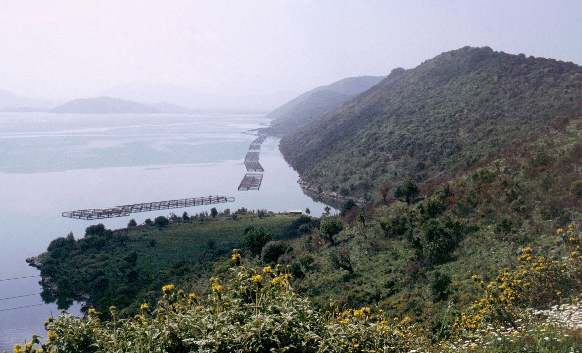 Lake Butrinti. Near the shore arrangements to the breeding of Mediterranean mussels (Mytilus galloprovincialis). Picture taken in May, 1991